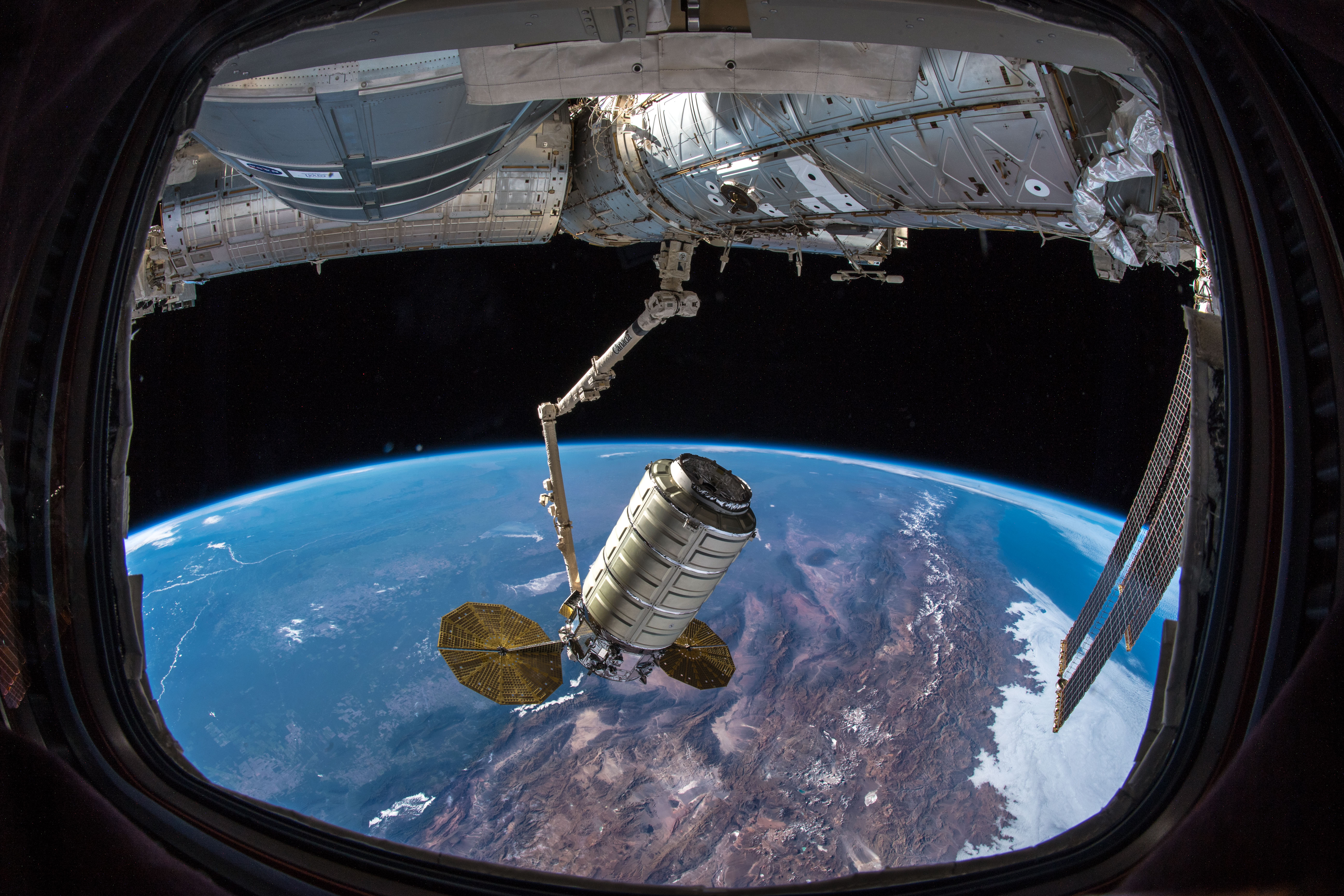 S.S. John Young at the Space Station "Captured Cygnus today with @Astro_Alex…Proud to have The SS John Young on-board!" said astronaut Serena Auñón-Chancellor today, as the International Space Station crew brought aboard the latest Northrop Grumman Cygnus cargo craft, loaded with close to 7,400 pounds of research and supplies. The Cygnys spacecraft will spend about three months attached to the space station before departing in February 2019. After it leaves the station, the uncrewed spacecraft will deploy several cubesats before its fiery re-entry into Earth’s atmosphere.